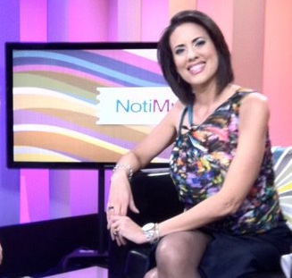 Took it on set visiting CNN Miami studios in 2010